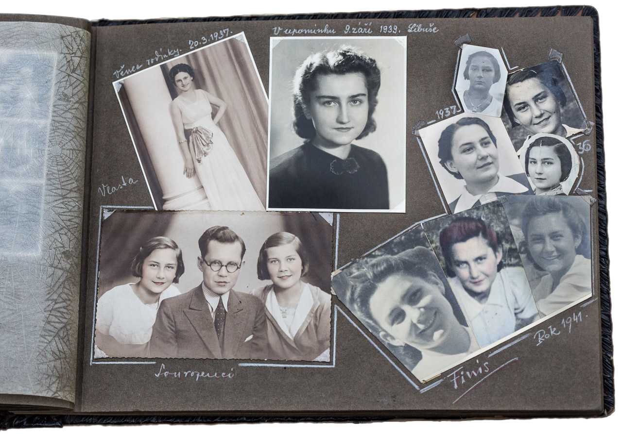 One page from my family photoalbum